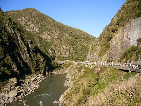 Manawatu Gorge in New Zealand on a sunny September day.